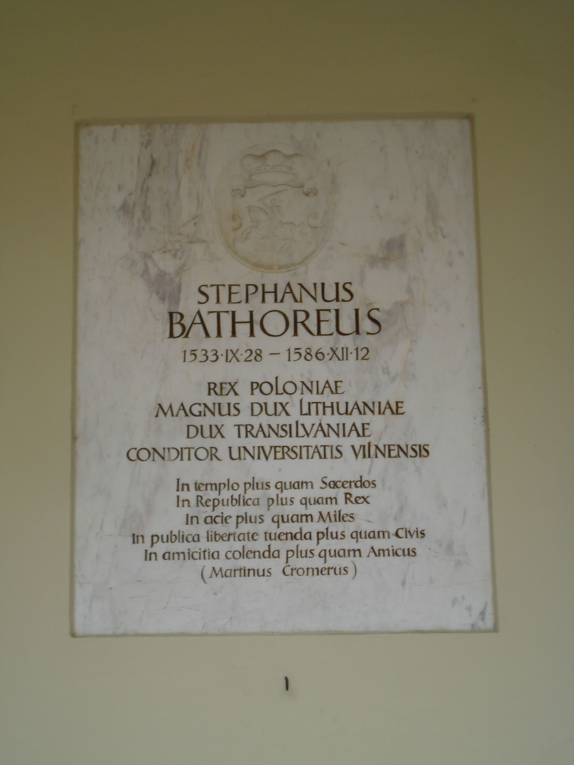 Vilnius University. The Grand Courtyard. Stefan Batory memorial plaque